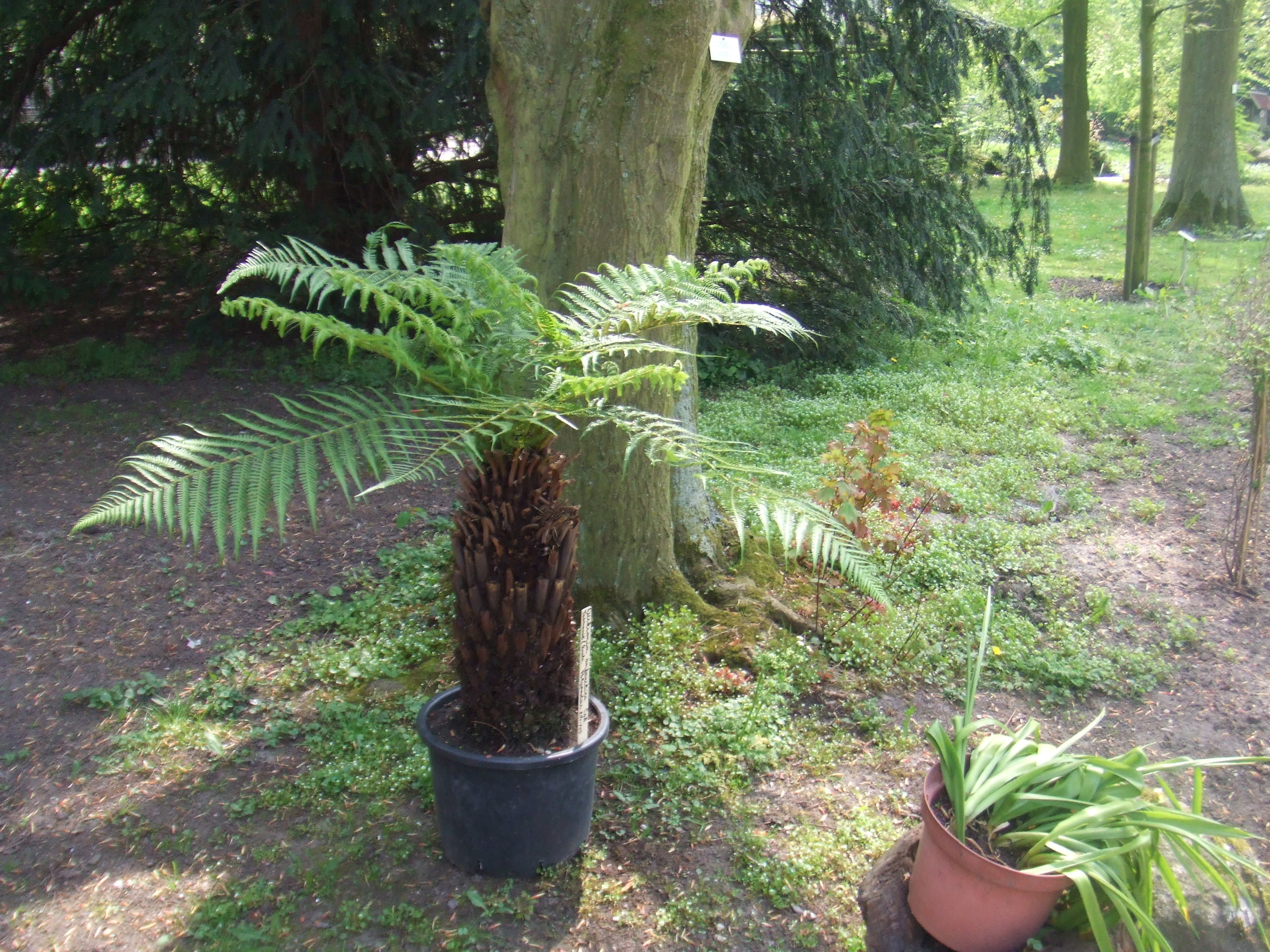 Picture taken at the Botanische Tuin TU Delft in Delft, The Netherlands